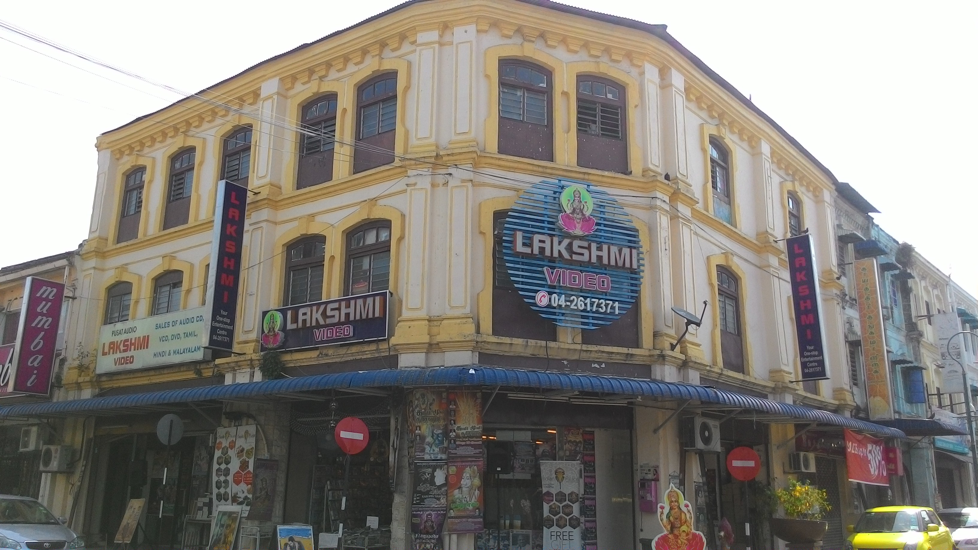 One of the Video centre in Little India which sell DVD's and CD's of new Tamil Movie and Songs